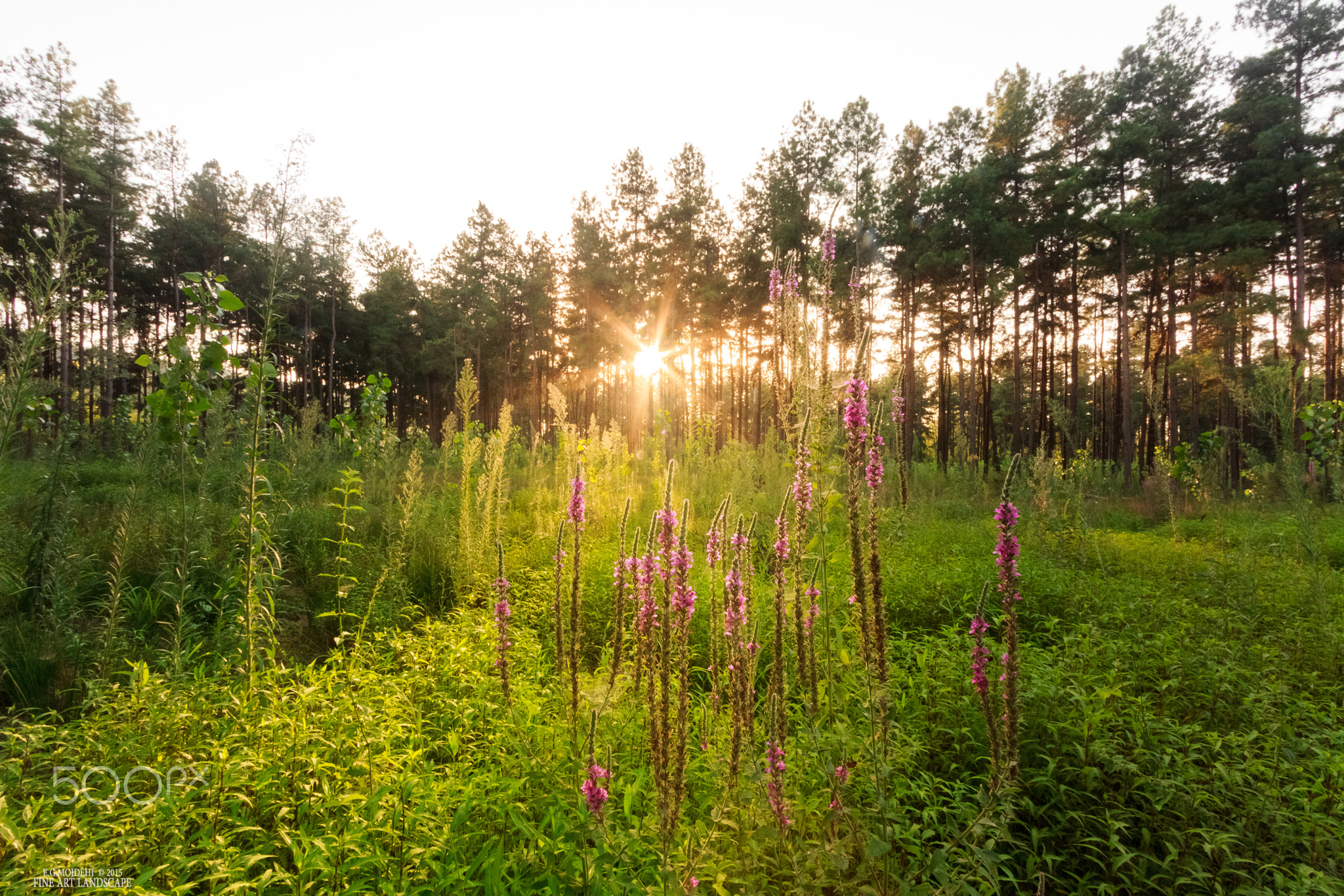 500px provided description: ' Hyrcanian Forest ' contains remnants (refugia) of the broad leaf forests that once covered most of the North Temperate Zone 25 - 50 million years ago, in the early Cenozoic Era. As the climate and land forms changed, this forest disappeared from most of its former range, being replaced by shrublands, grasslands, and woodlands. During the Pleistocene ("Ice Ages"), glaciations had minimal impact on Hyrcanian Forest. North of Iran as along band has diverse natural, economic and social conditions. Hyrcanian forest contain the most important and significant natural habitats for in-situ conservation of biological diversity, including those containing threatened species of outstanding universal value from the point of view of science or conservation." The Caspian forest "(North of Iran) areas are among the most unique and splendid biomes of the world. The Caspian forests have high moisture content, so forest trees are host to many epiphytes such as mosses, ferns, lichens, mistletoes and some flowering plants. Soils are productive and rich in minerals and organic matter. [#trees ,#sky ,#landscape ,#forest ,#sunset ,#nature ,#flower ,#sun ,#light ,#summer ,#beautiful ,#green ,#landscapes ,#Hyrcanian]